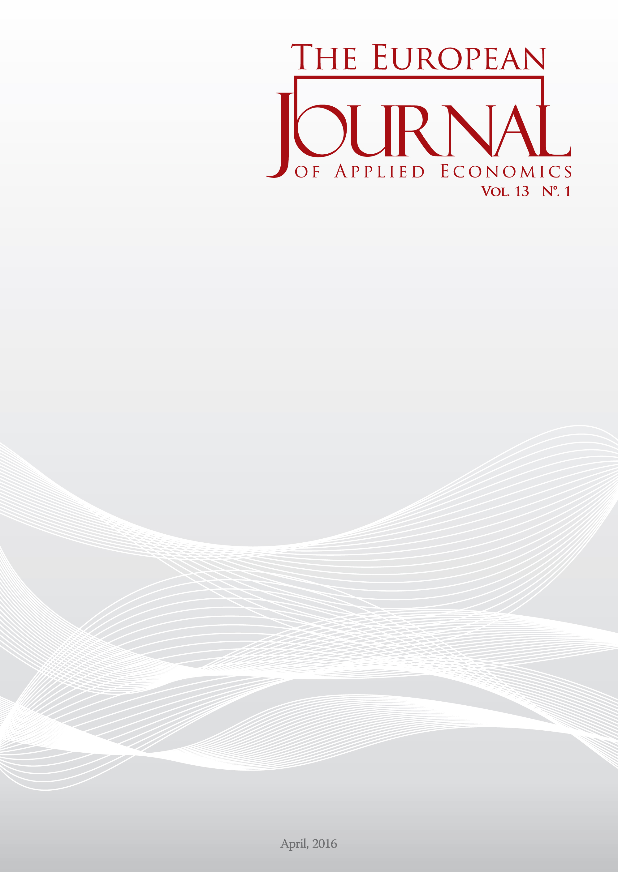 The European Journal of Applied Economics (cover page)